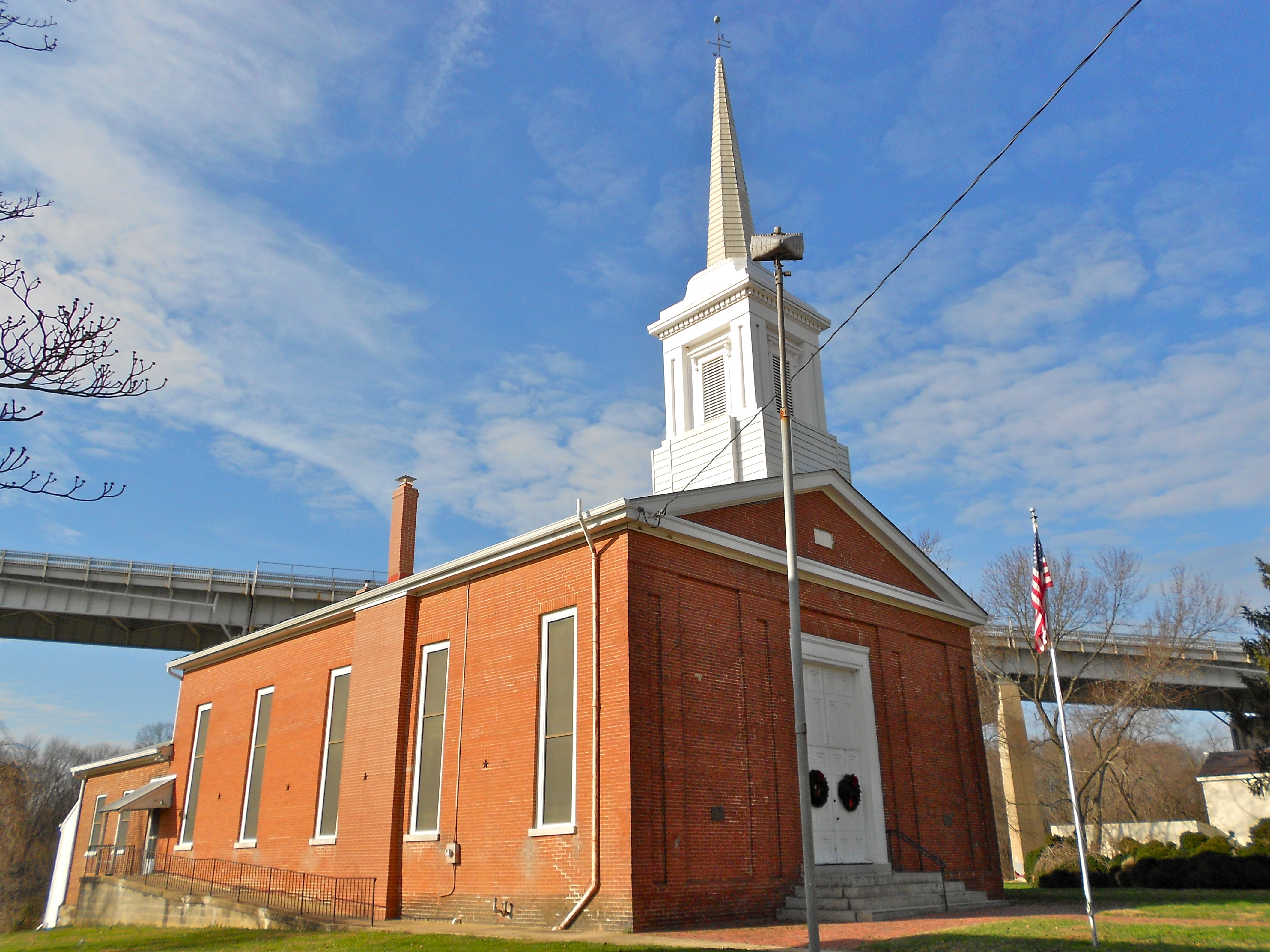 St. Georges Presbyterian Church on the NRHP since November 7, 1984 on Main St., St. Georges, Delaware.